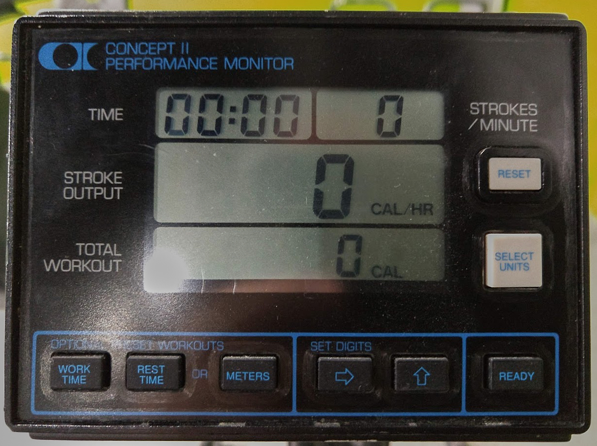 Computerized performance monitor model PM1, for Concept 2 brand rowing machines. This model was available 1986-1995.